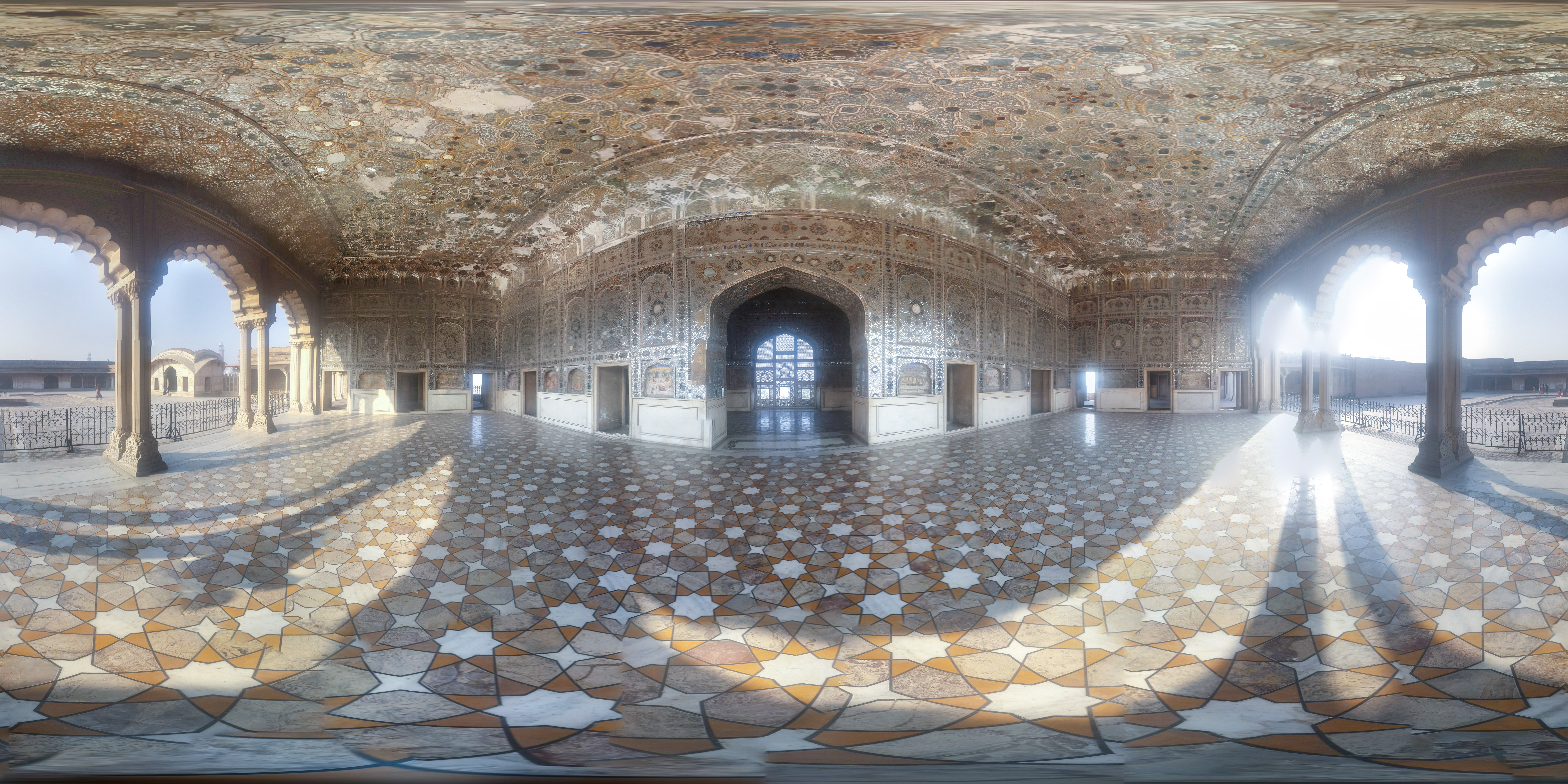 Lahore Fort complex (including Moti Masjid, Naulakha Pavilion, Sheesh Mahal and others) This is a photo of a monument in Pakistan identified as the PB-67